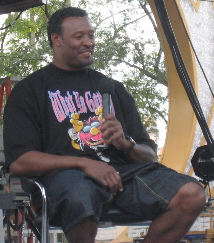 Cleveland Browns linebacker Willie McGinest interviewed at an ESPN Weekend event at Disney's Hollywood Studios